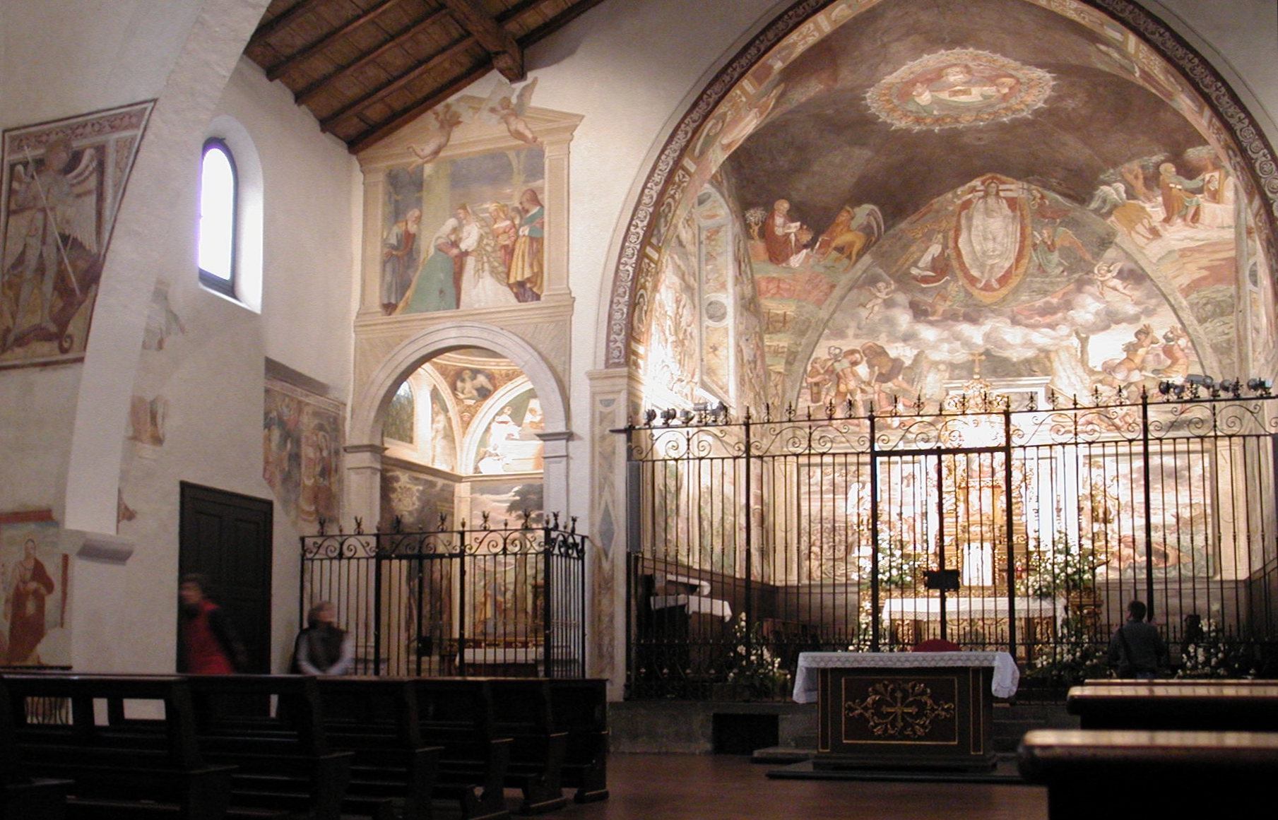 Bergamo, Lombardia, Italy Chiesa di san Michele al bosco - Church of St Michael Foto fatta da me october 2005